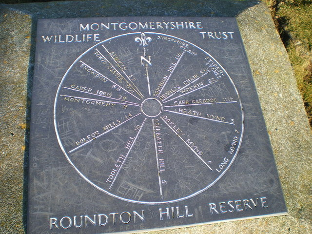 Toposcope detail Details shown on the slate toposcope at the top of Roundton Hill.